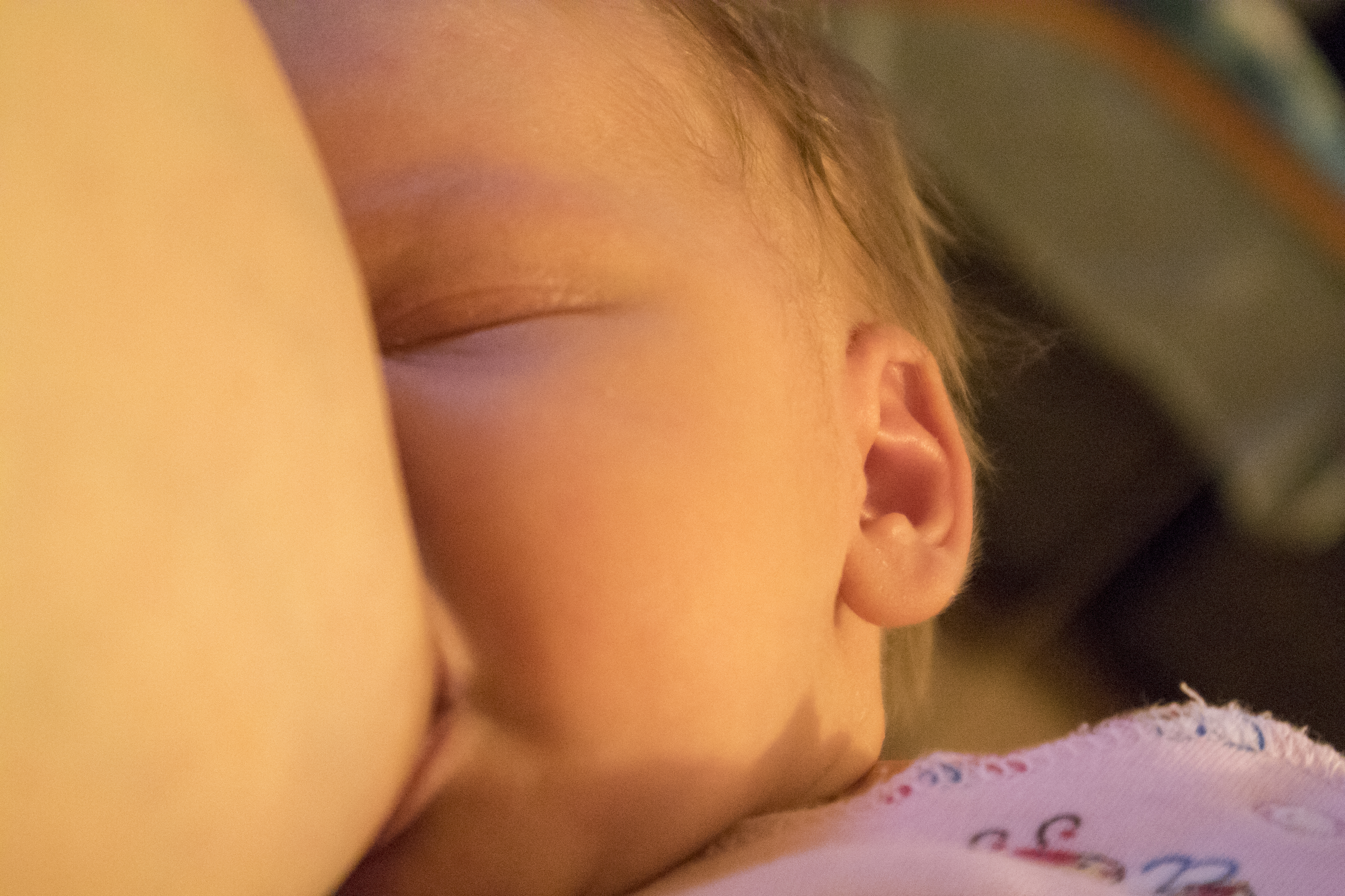 Breast-feeding of little baby in a close up photo.